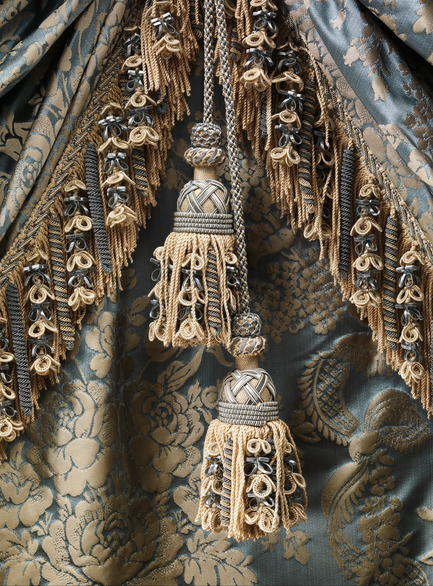 French, Paris; Bed; Woodwork-Furniture